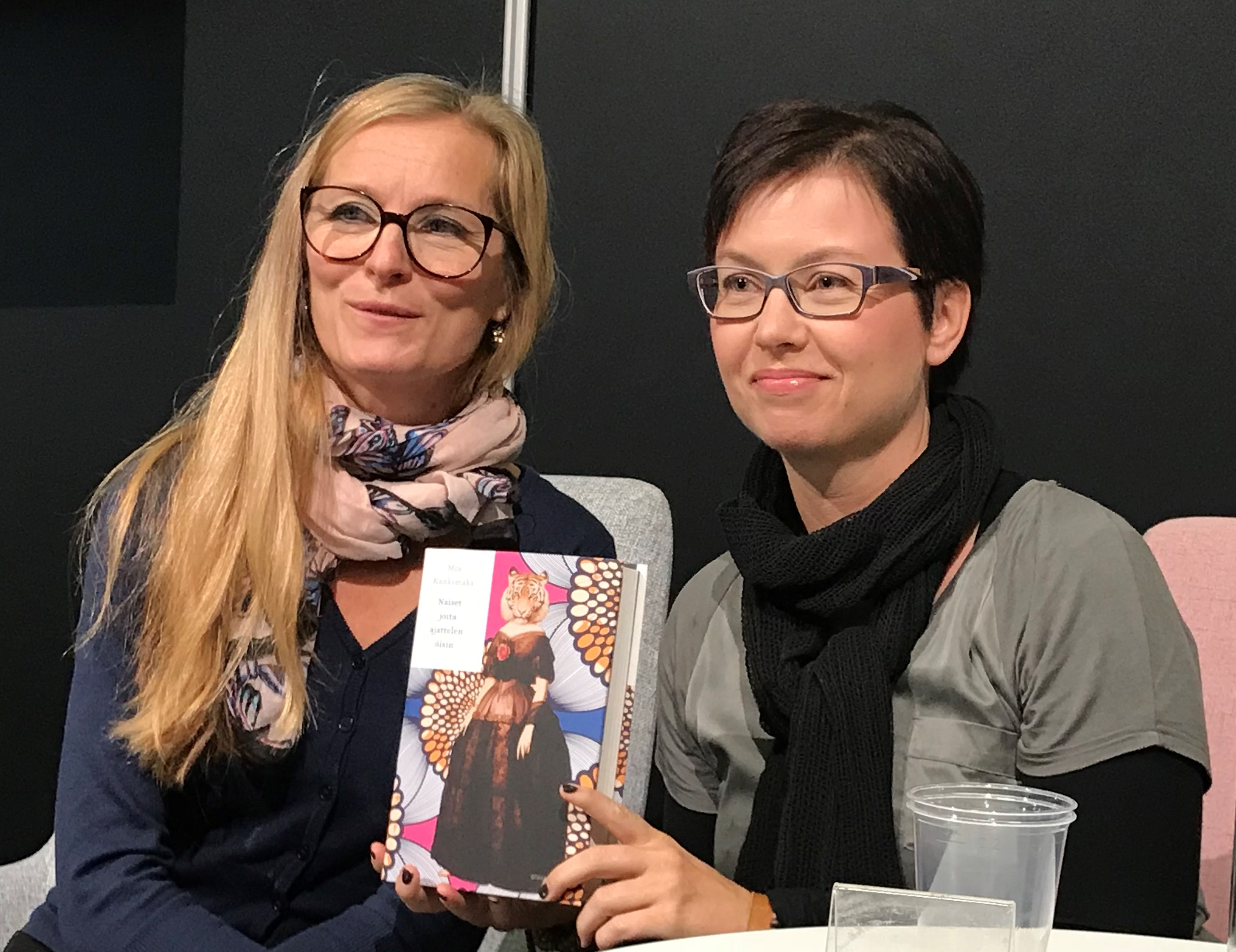 Mia Kankimäki, to the right, interviewed by Katja Kallio at Helsinki Book Fair, 2018. Both of them are authors.